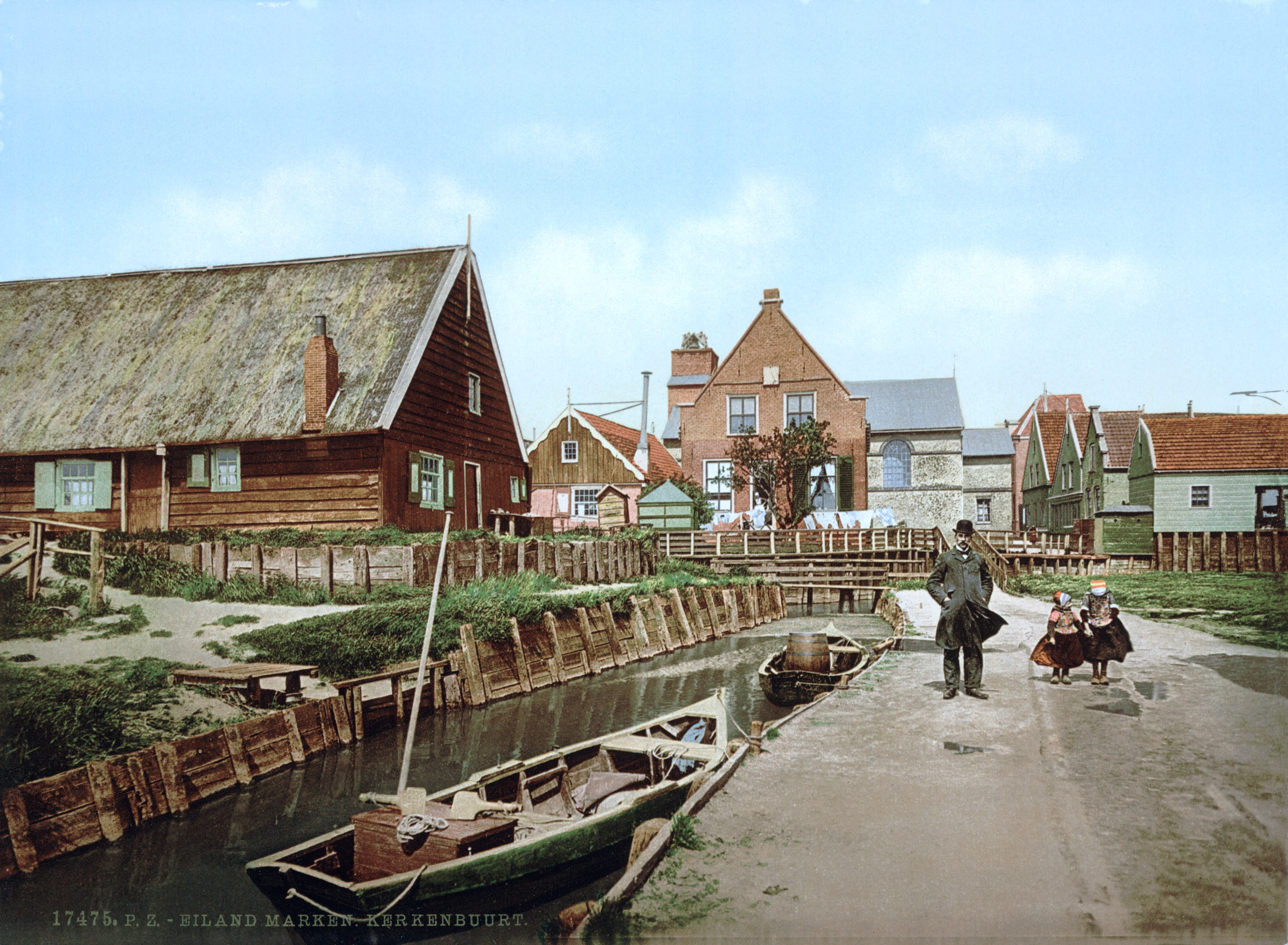 Churchquarter on the Isle of Marken, Netherlands